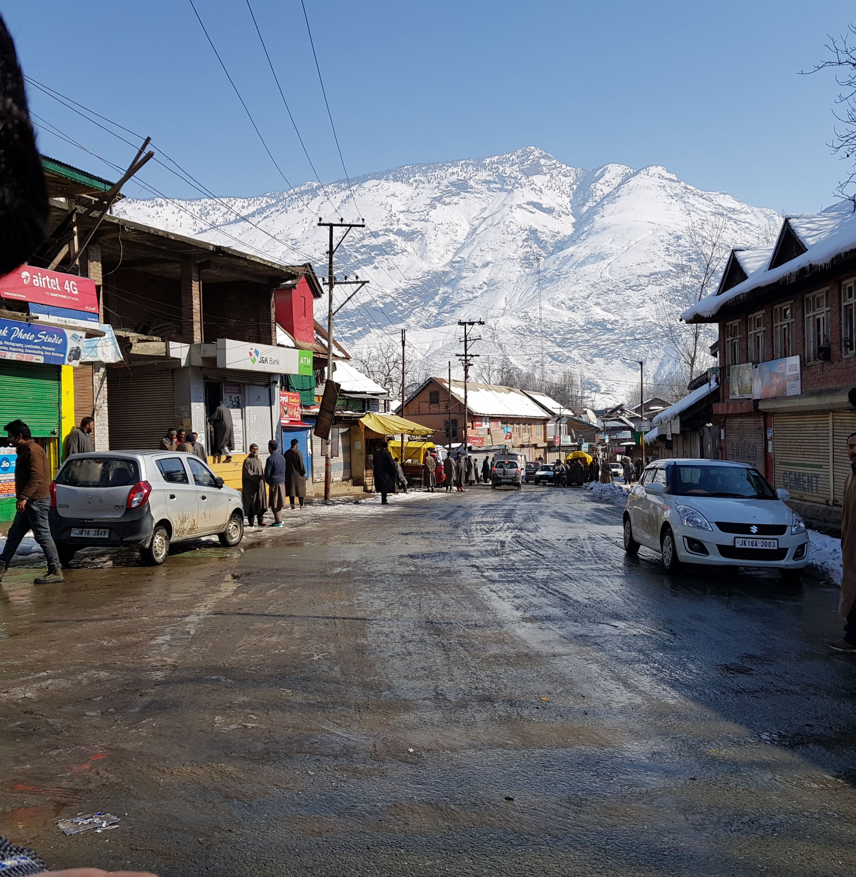 Main Market Safapora during winters